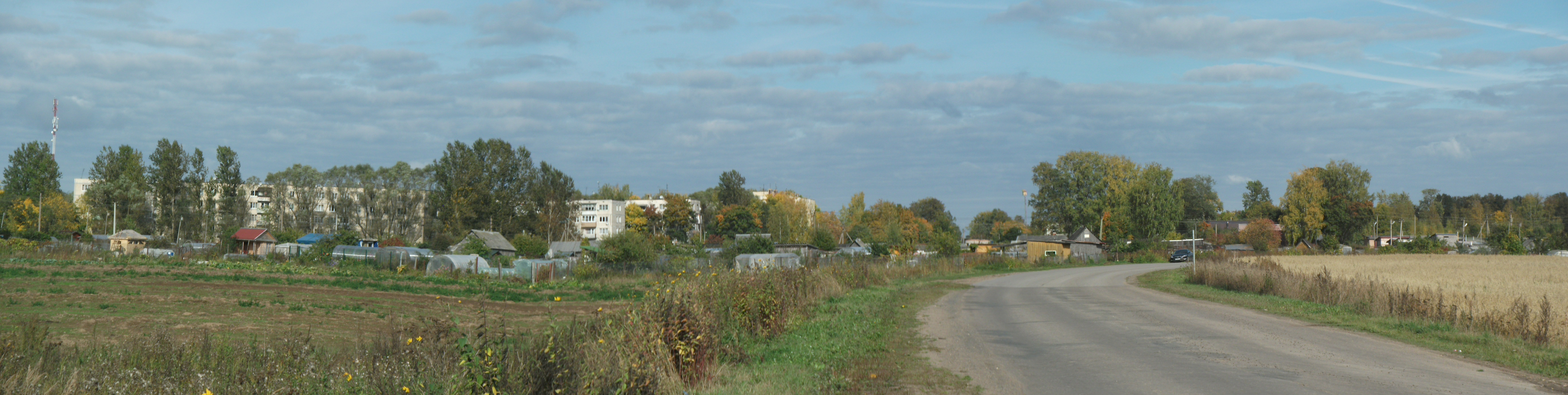 Panorama of Batovo, Gatchinsky District.